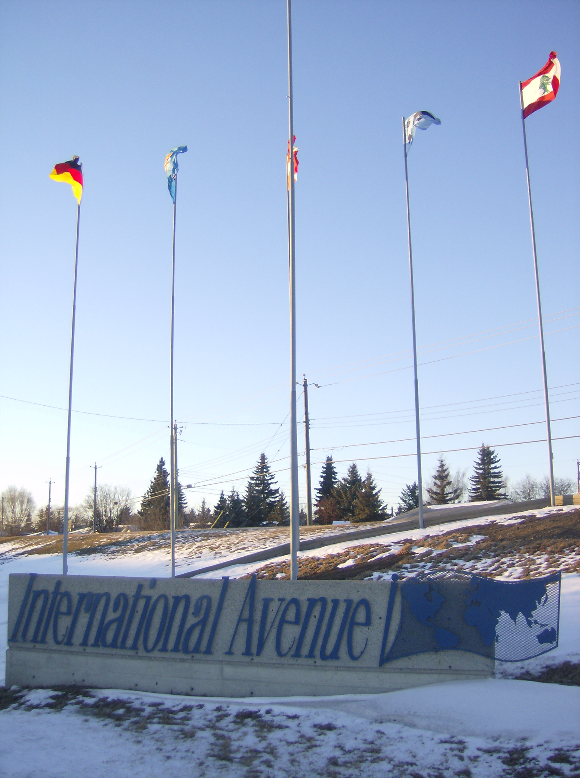 A sign and international flags marking International Avenue, Calgary in Calgary, Alberta, Canada. This is on North side of International Avenue (17th Avenue SE), near the Eastern limit, with the sign facing West-bound traffic.